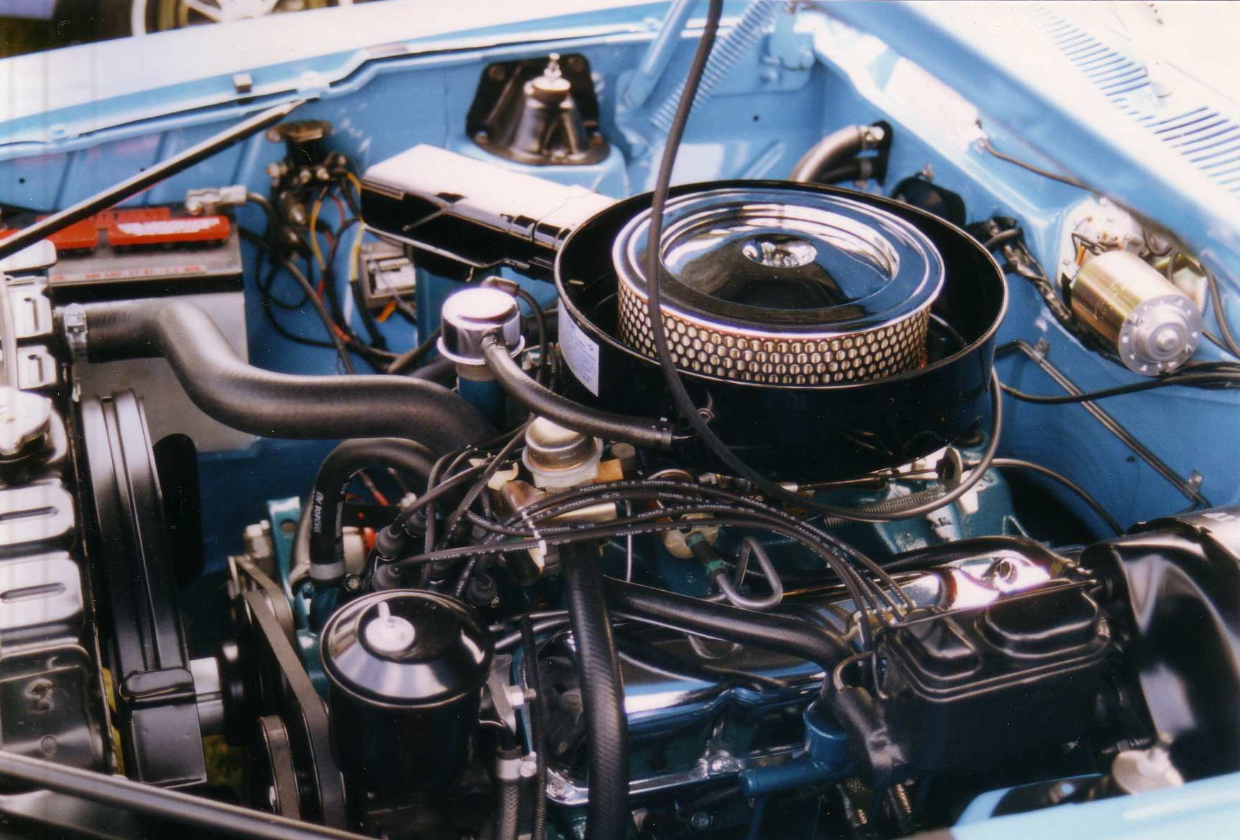 1970 American Motors Corporation (AMC) Javelin 390 CID (6.4 L) engine with factory "Go Package" in a car finished in "Big Bad Blue" (BBG).